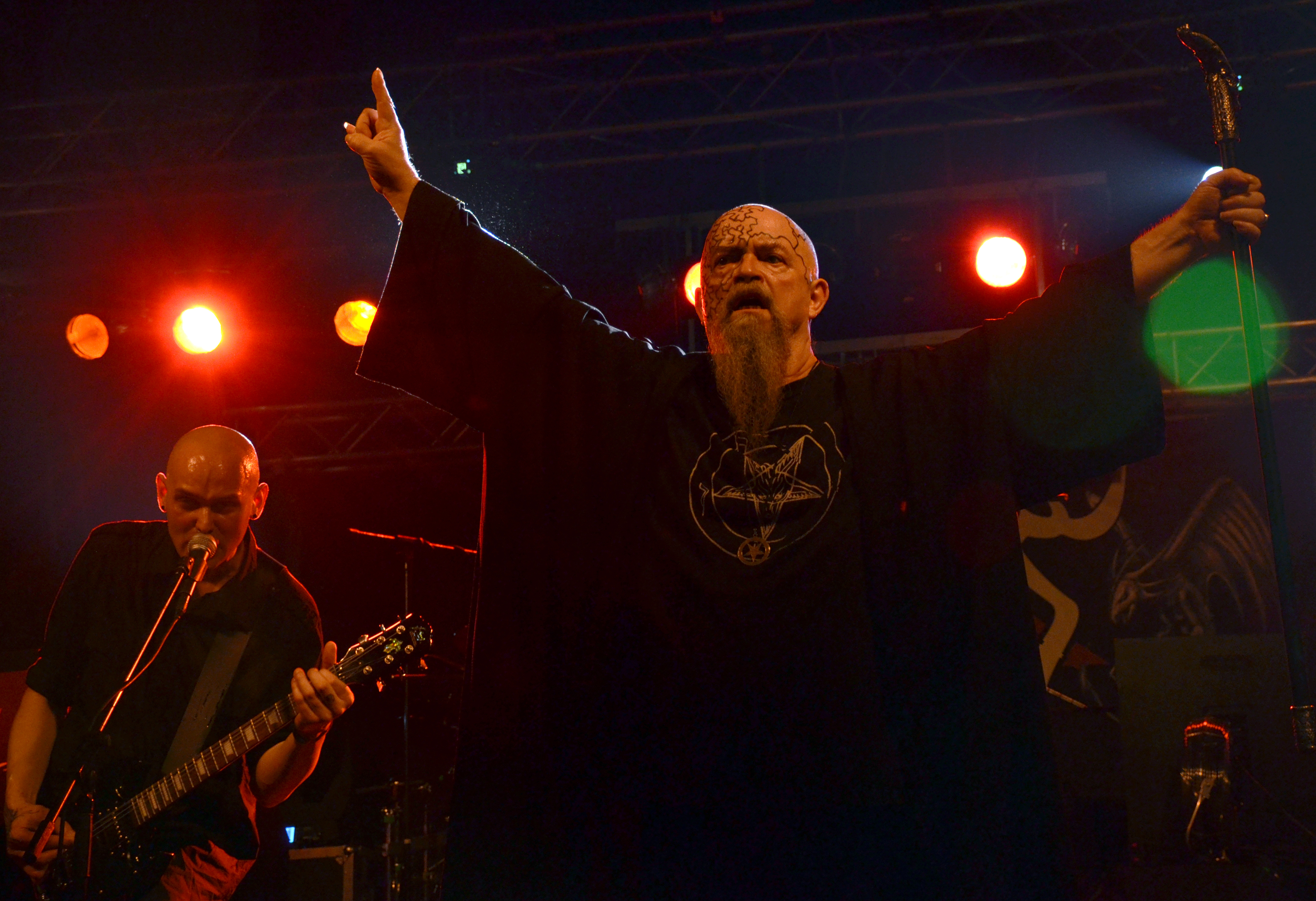 Root performing at the Satan's Convention in Speyer, the 27th of December 2014.